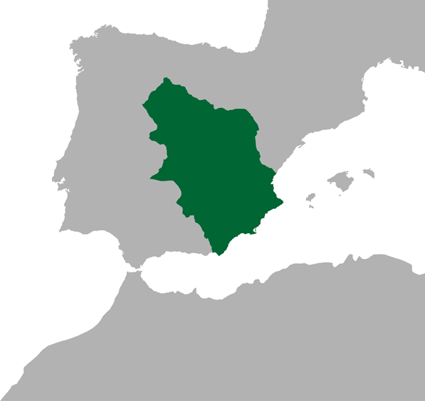 This map shows the Carthaginensis´ territory in the Roman Empire.